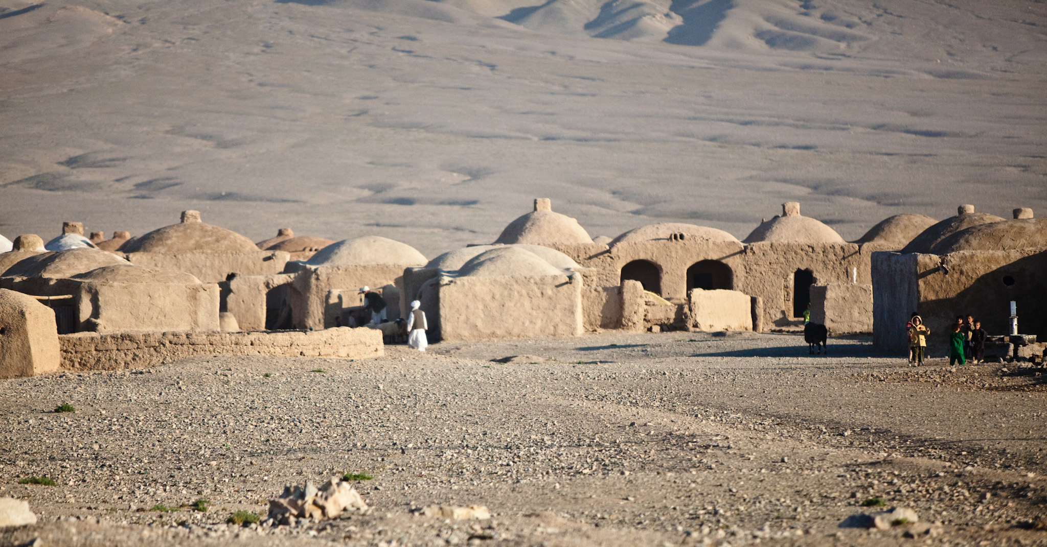 Traditional village - Outside Herat, Afghanistan